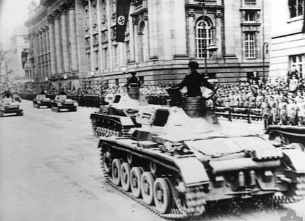 Early pre-production German Panzer III Ausf. A tanks during a parade in Berlin. The tank in front of the Ausf. A is an Ausf. B. Original caption: "Berlin, Germany. c.1938. German medium tanks Mark III Sd Kfz 141 parading past Adolf Hitler and a crowd of servicemen and civilians. Note the Nazi flags flying from the buildings."